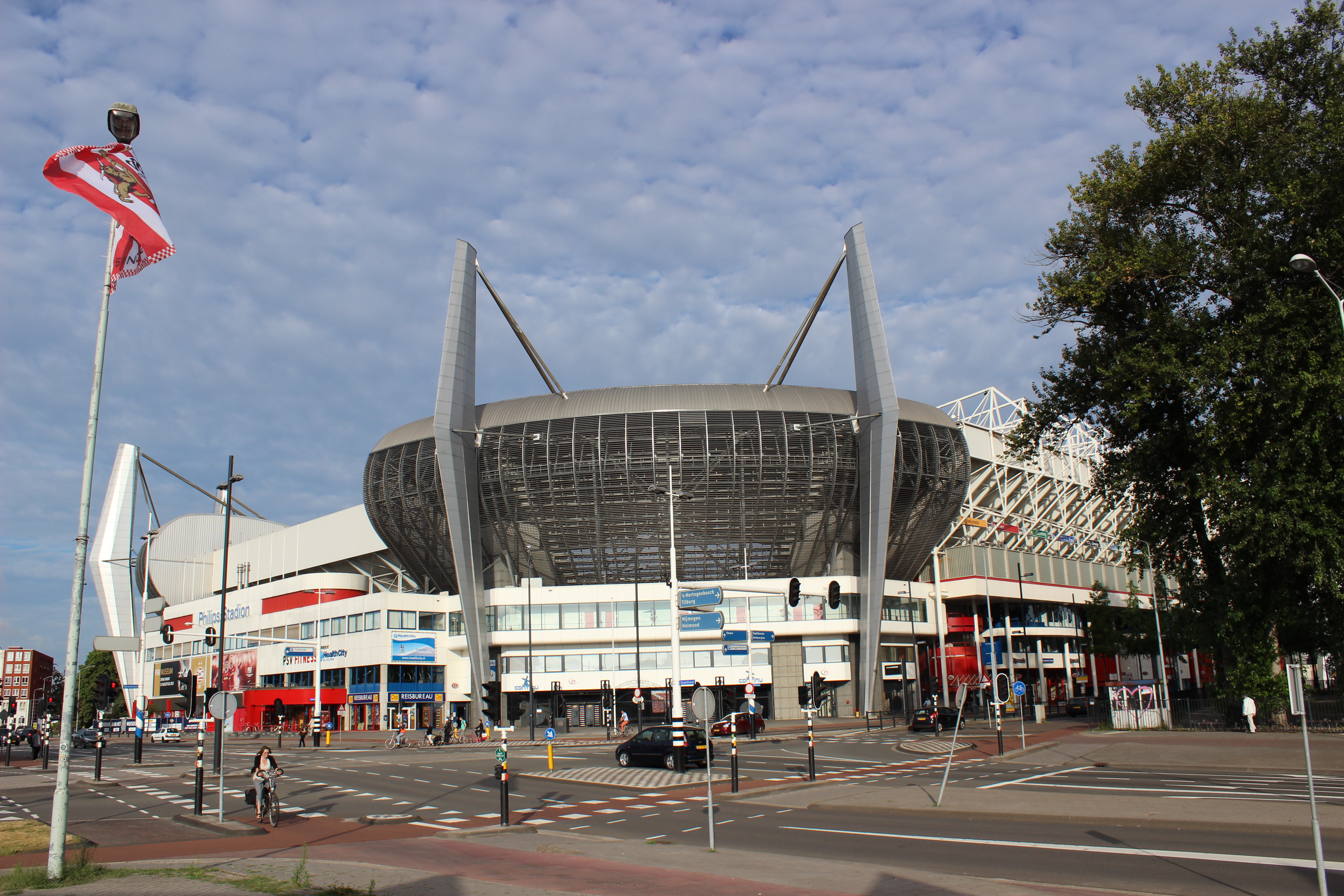 Philips Stadium of PSV Eindhoven, Netherlands